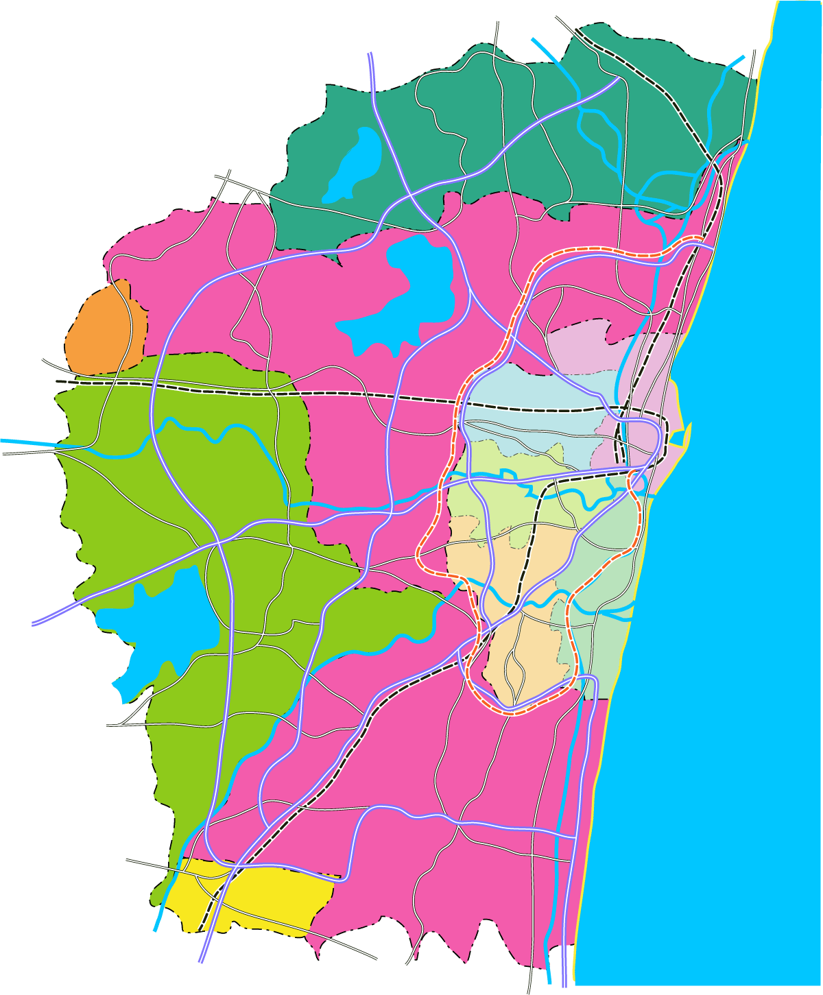 Masterplan for Chennai's road and rail network according to the CMDA. source: User:Planemad